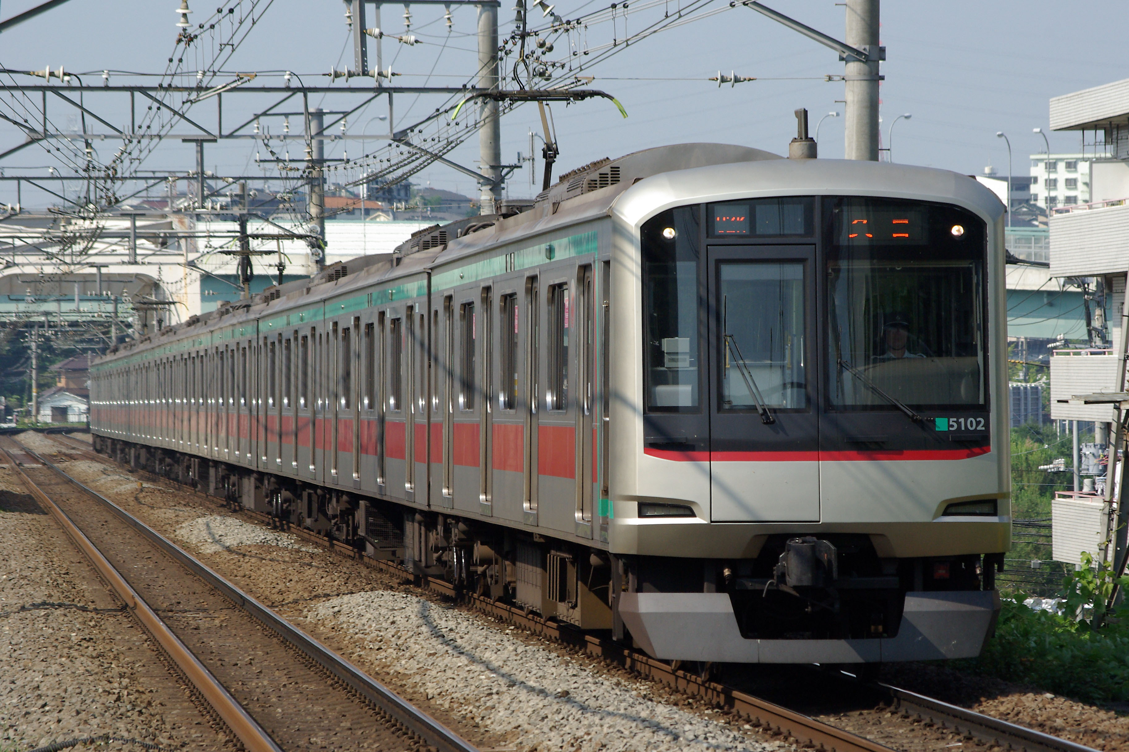 Tokyu 5000 series train approaching Ichigao Station, Tōkyū Den-en-toshi Line